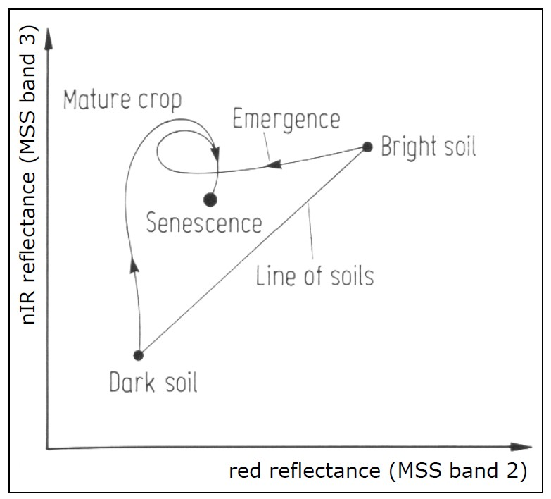 graph of a Tasseled Cap Transformation for bright and dark soil axis show nIR and red reflactance